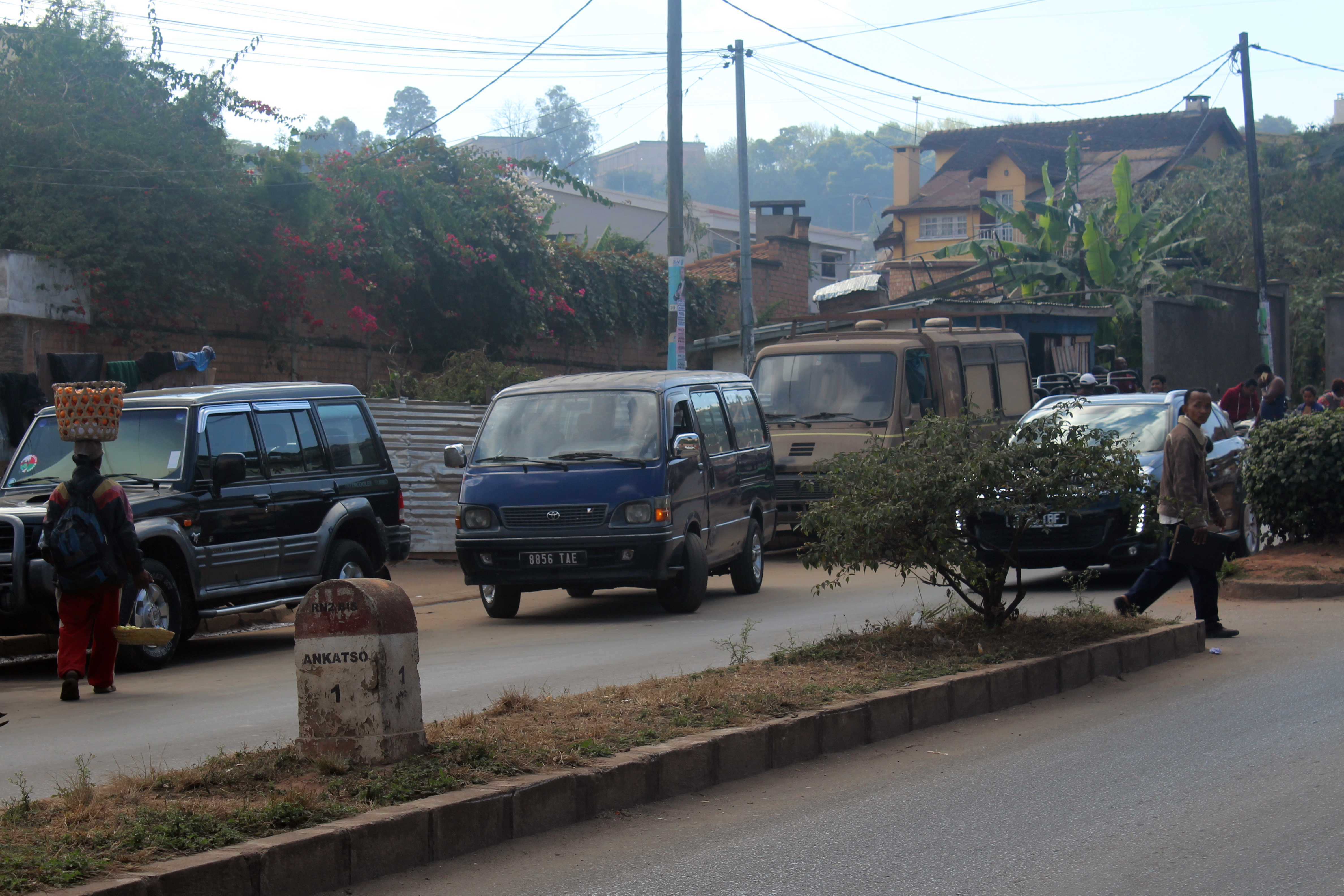 The highway location marker at km 1 of Madagascar's National Road 2bis